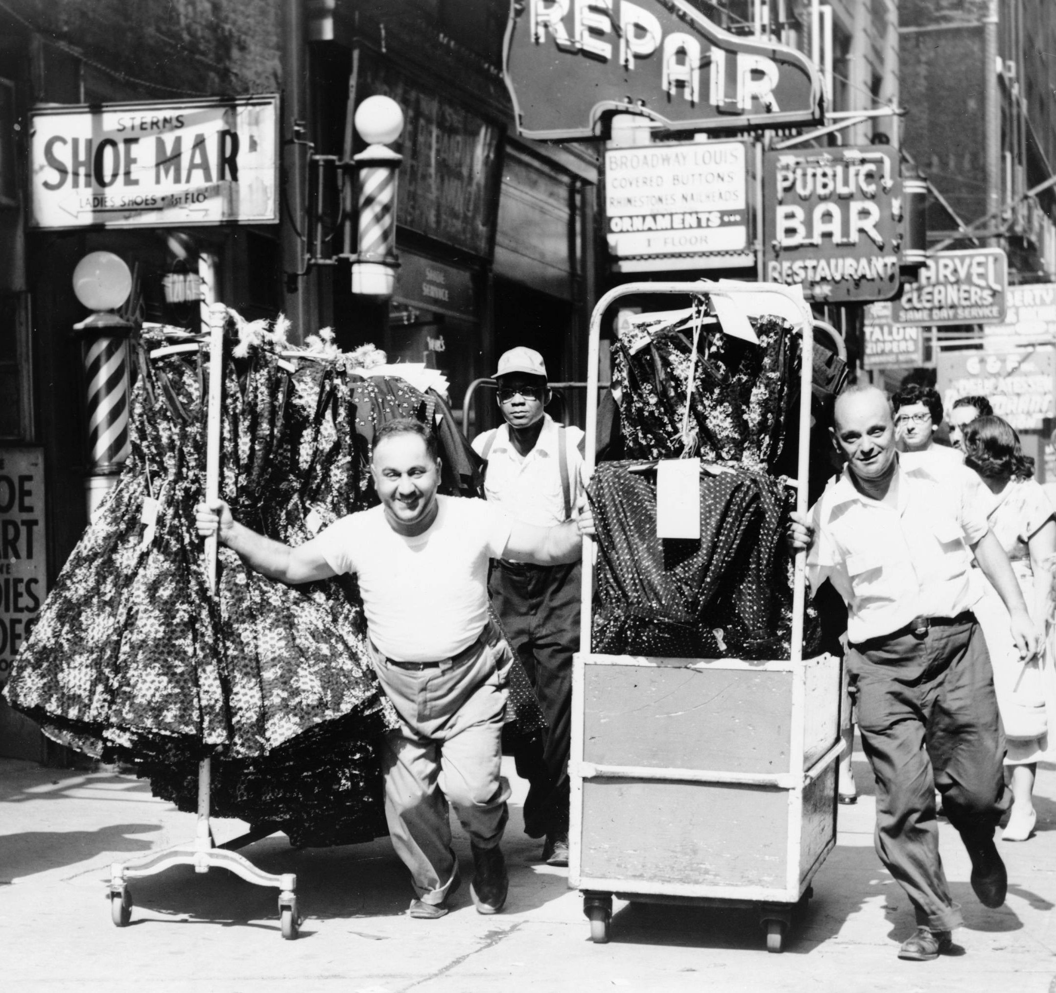 Men pulling racks of clothing on busy sidewalk in Garment District, New York City / World Telegram & Sun photo by Al Ravenna.